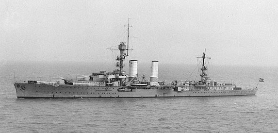 The German light cruiser Emden heading up the Yangtse River, en route to Nanking, China, 1931.